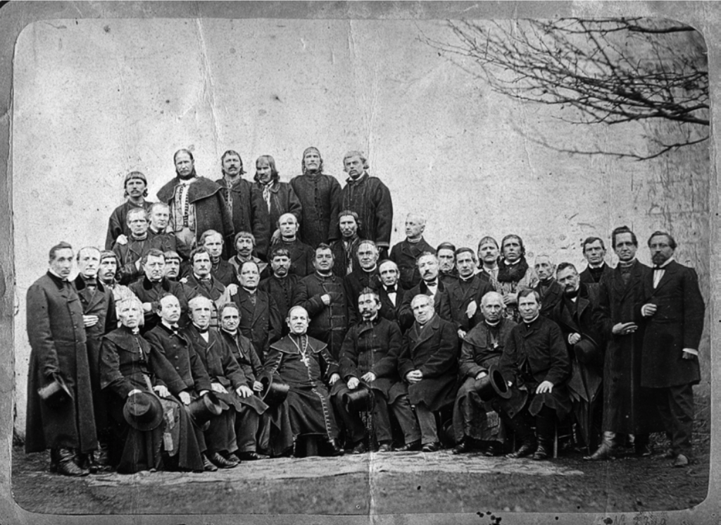 Ruthenian members of Galician Sejm in 1861